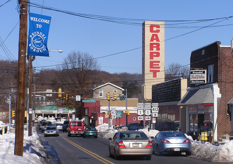 Looking north on Bellevue Avenue in Penndel, Pennsylvania, February 3, 2011.